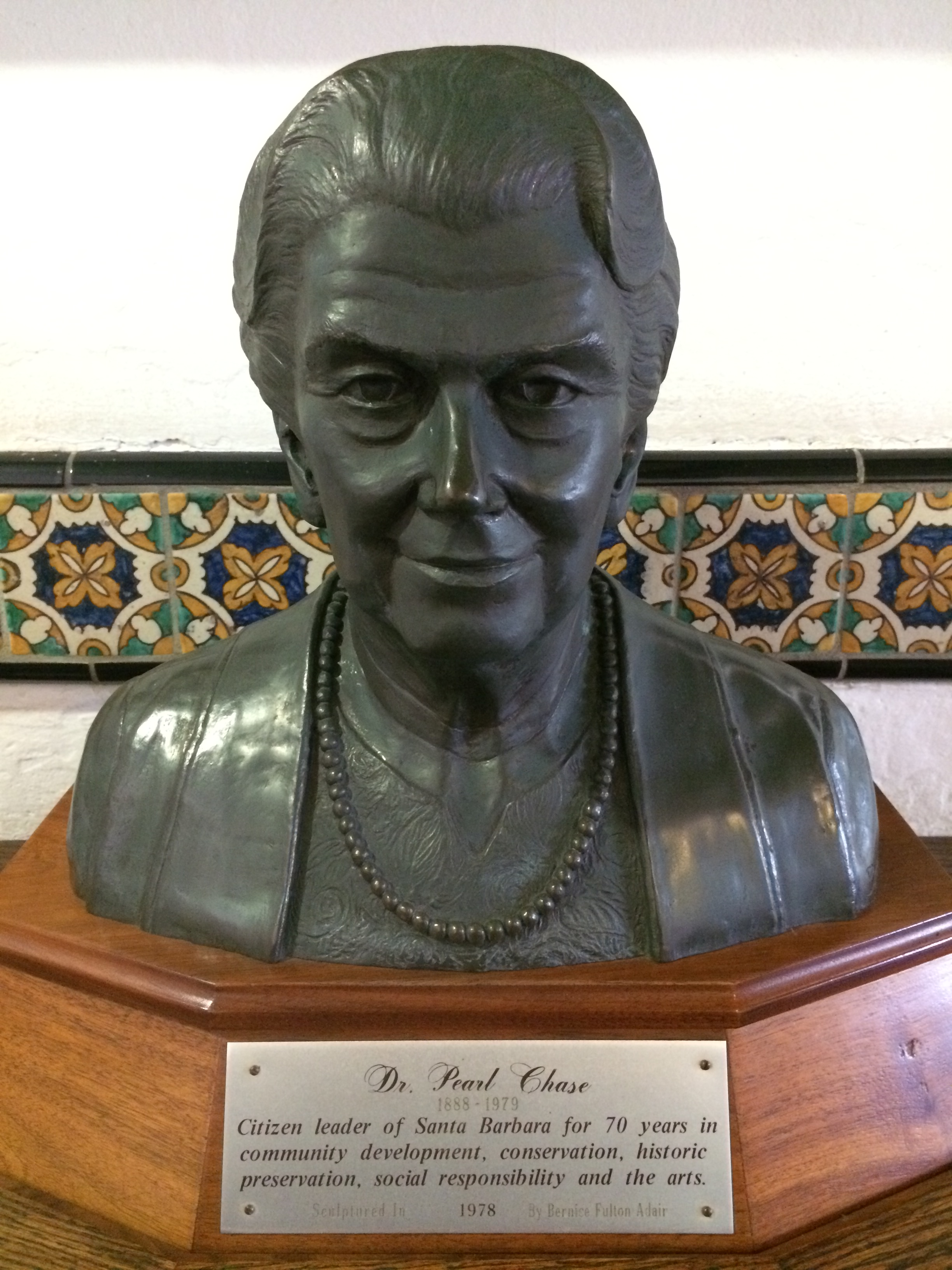 Pearl Chase was a civic leader in Sana Barbara, California.